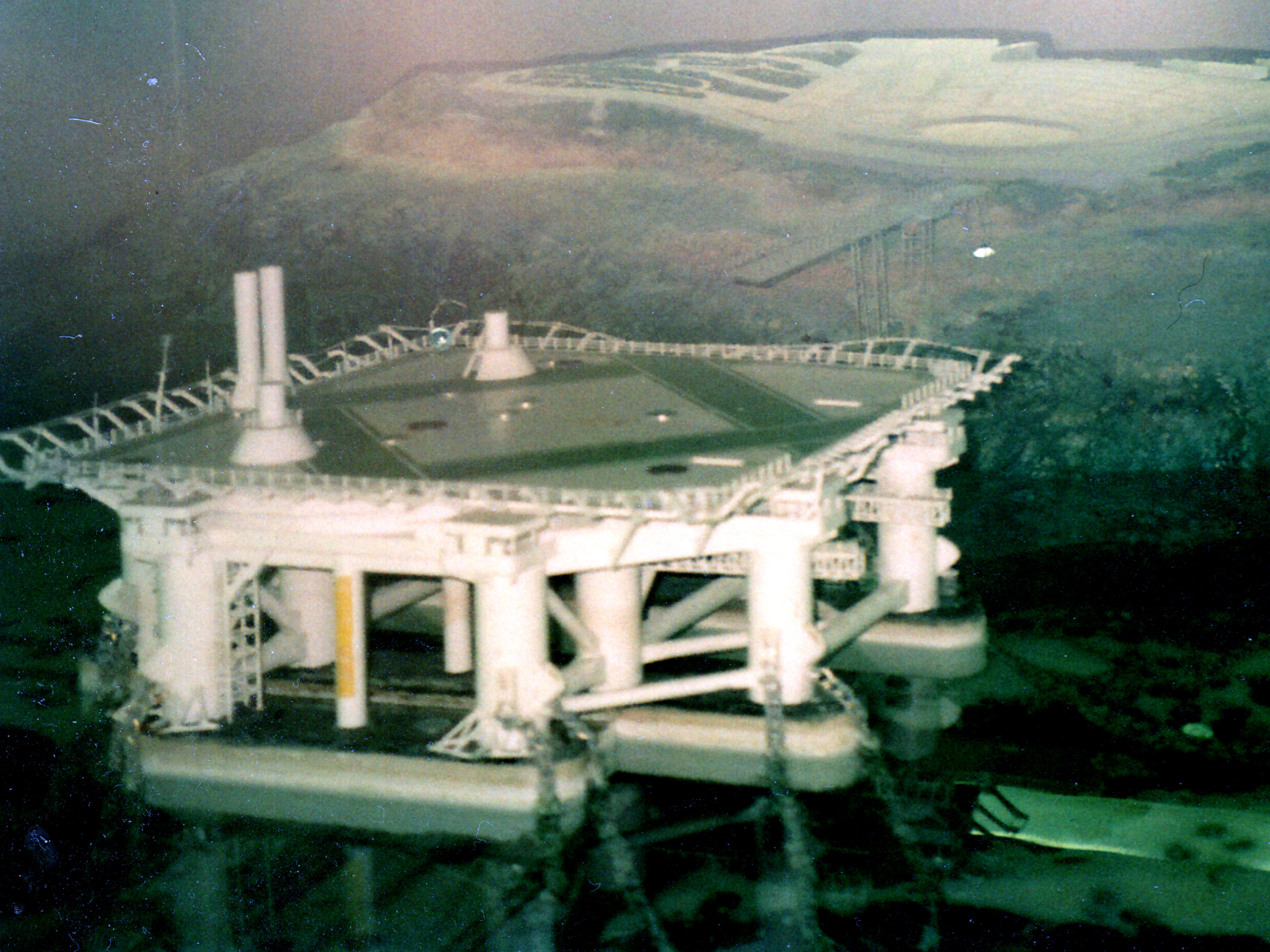 Model of Aquapolis,Motobucho Kunigamigun Okinawa JAPAN.